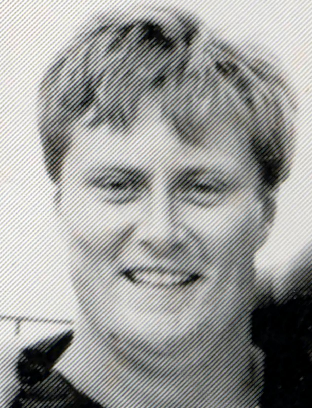 Georg Andersen, 1991